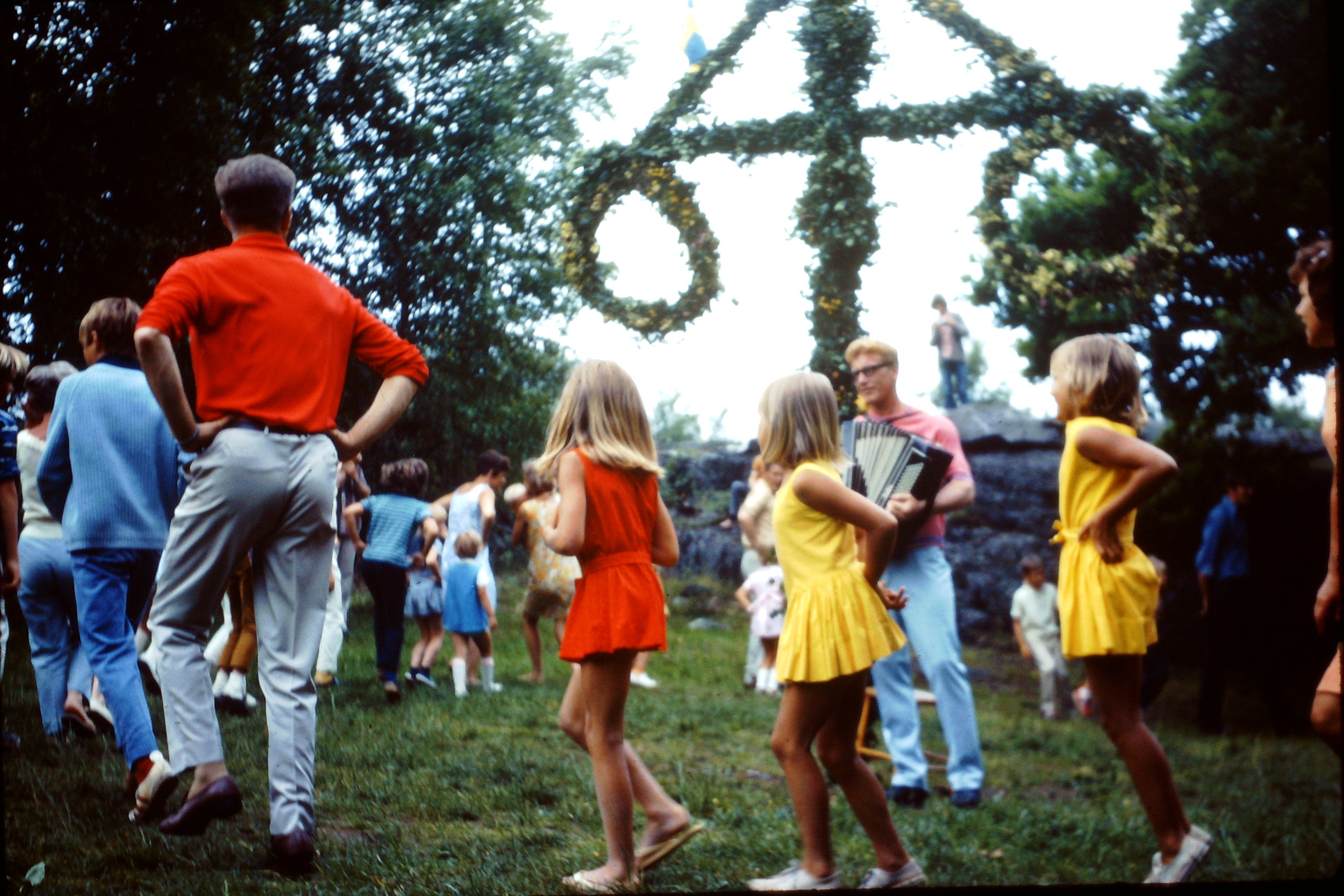 Midsummer celebrations at Årsnäs, which was started in 1963 as an intentional community on the west coast of Sweden, near Kode. The ownership of the 15 houses has since passed on through generations among the founding families. The community celebrates Midsummer yearly, starting by dances around the Maypole in the early afternoon, followed by the houses competing in games with different tasks each year, but often including e.g. nail hammering, log balancing, and darts. In the evening there is a dinner at the dance floor by the meadow including the year's first potatoes, soused herring and pickled herring, chives, sour cream, the first strawberries of the season, as well as beer and snaps for the grown-ups. All these images are scanned diafilms originally taken by Karin Aasma and Felix Aasma.